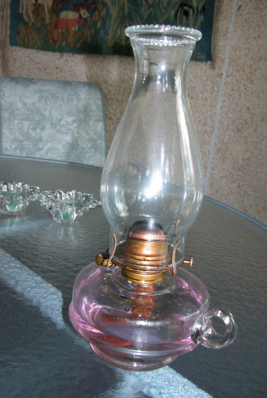 A collector's lantern made by Sneath Glass Company between 1894 and 1952.